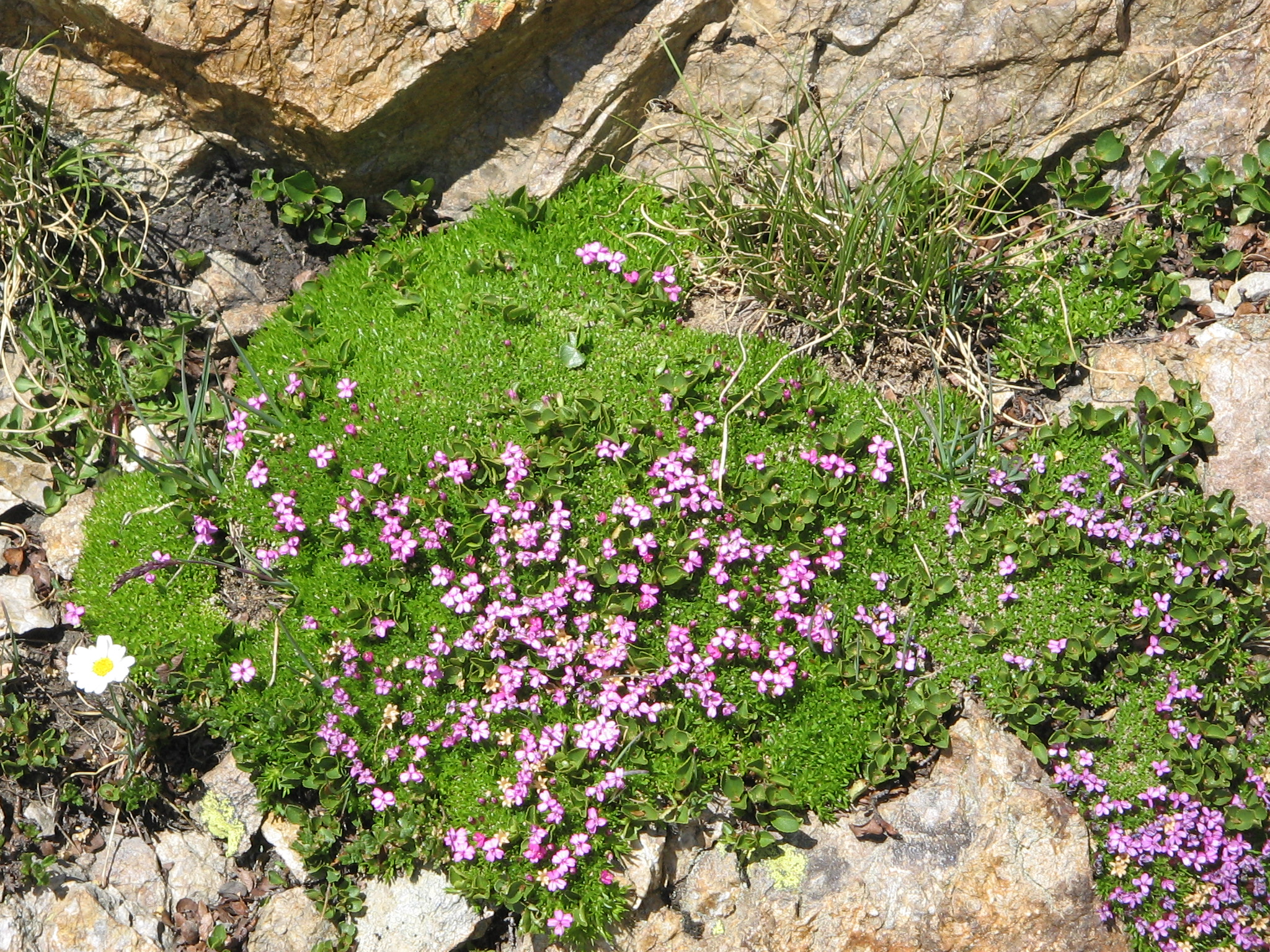 Silene acaulis